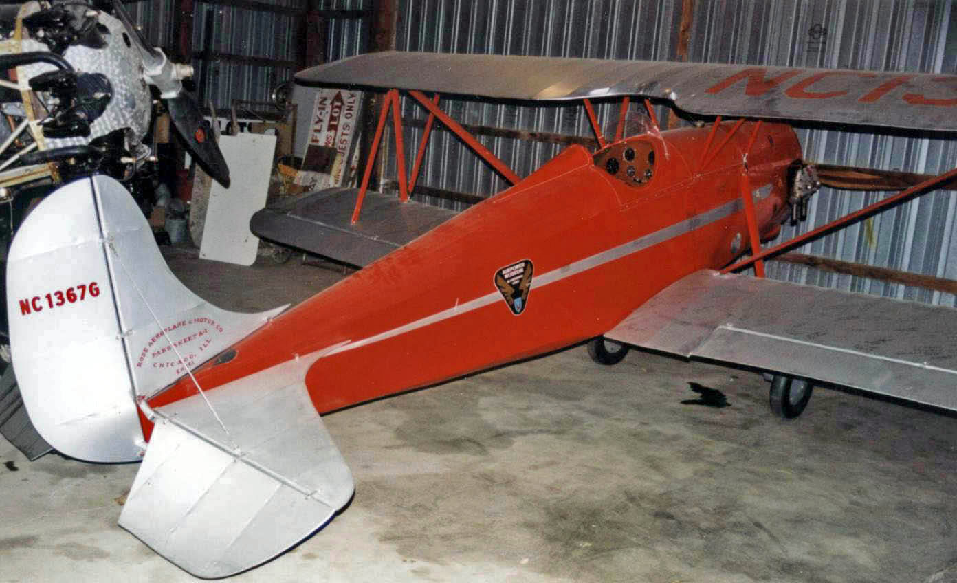 Rose Parakeet A-1 Biplane NC1367G built in 1936 at the Air Power Museum, Iowa